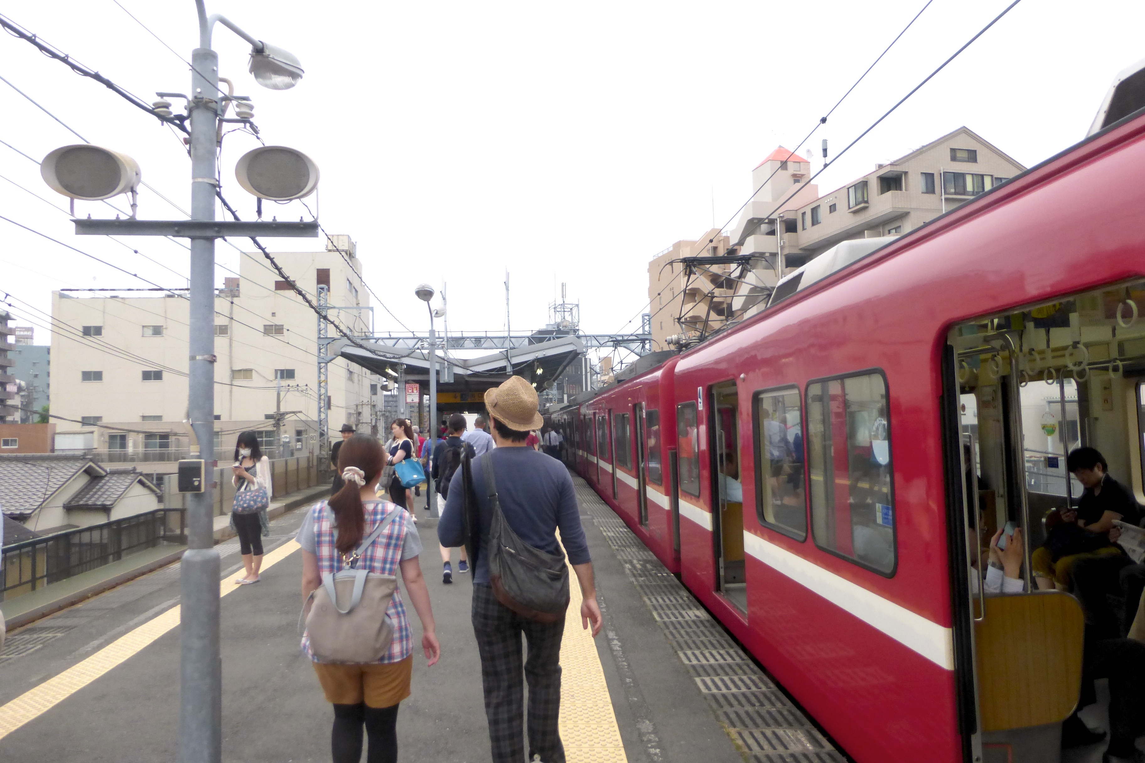 Koganechō Station platform (黄金町駅のホーム）